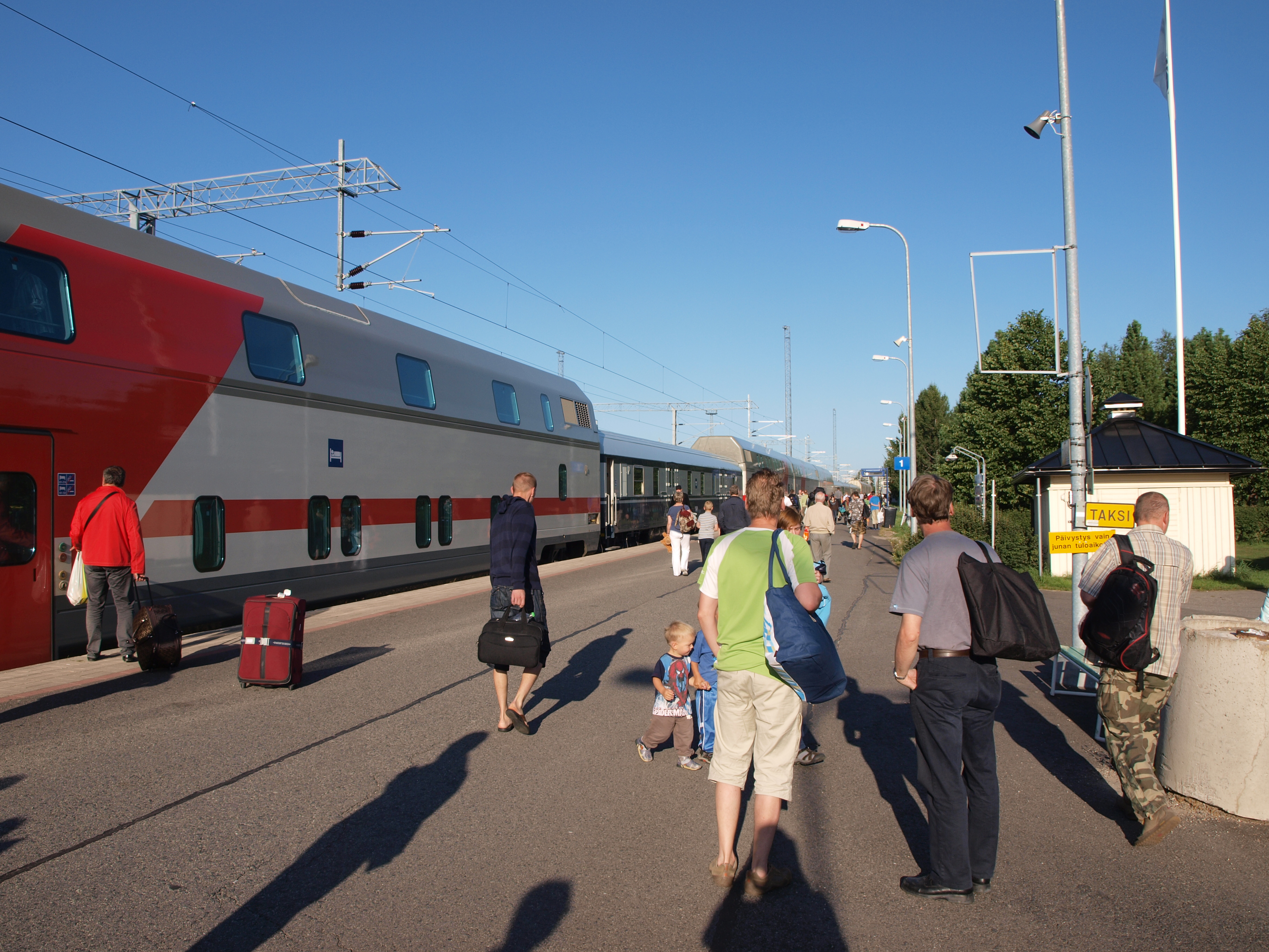 A VR Group train at Rovaniemi railway station on an early August morning. The train has come to Rovaniemi all the way from Helsinki, stopping at Tampere and Oulu along the way. It has spent most of the night between Oulu and Rovaniemi.